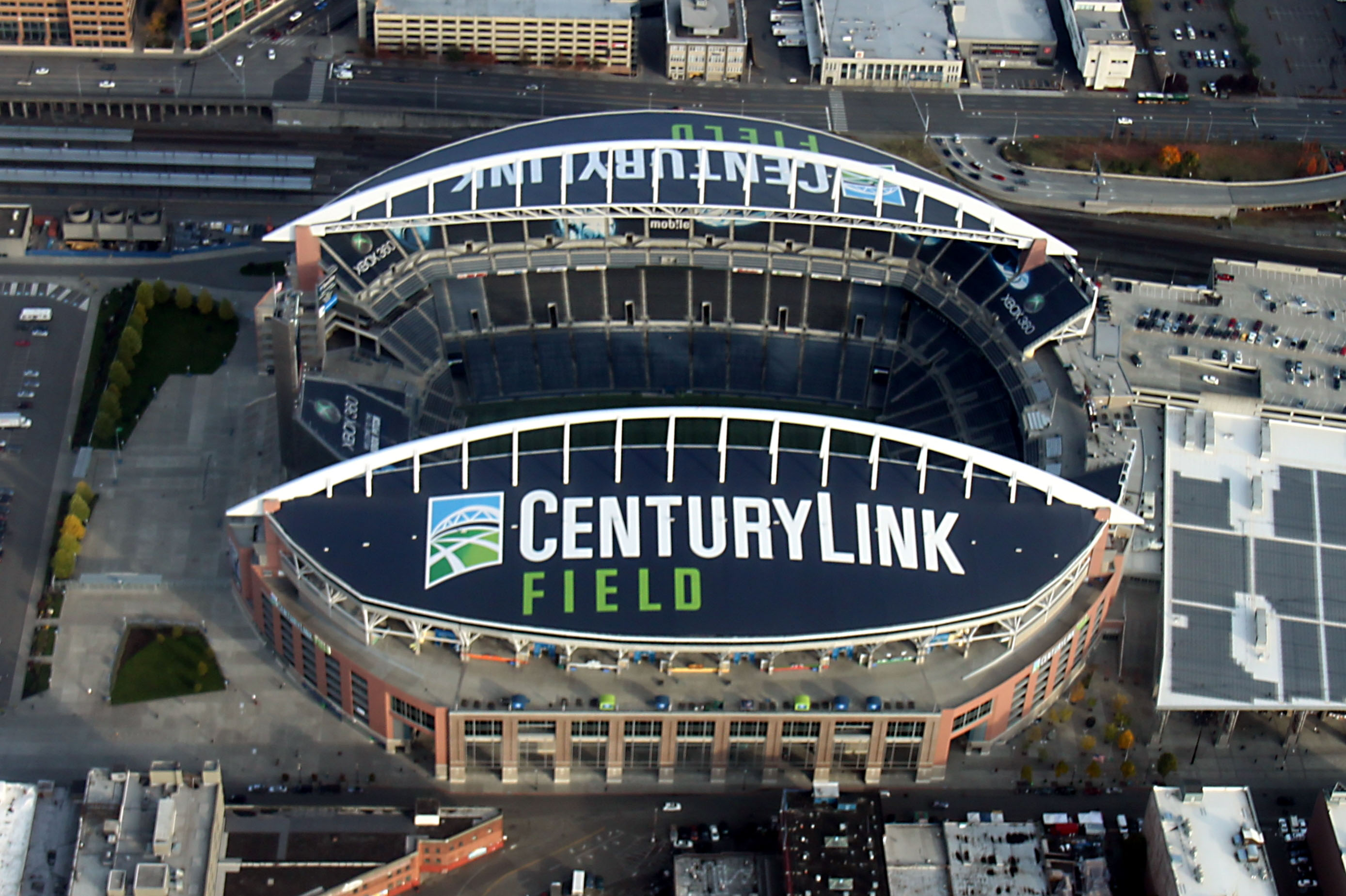 CenturyLink field, shot from 1,500', looking east